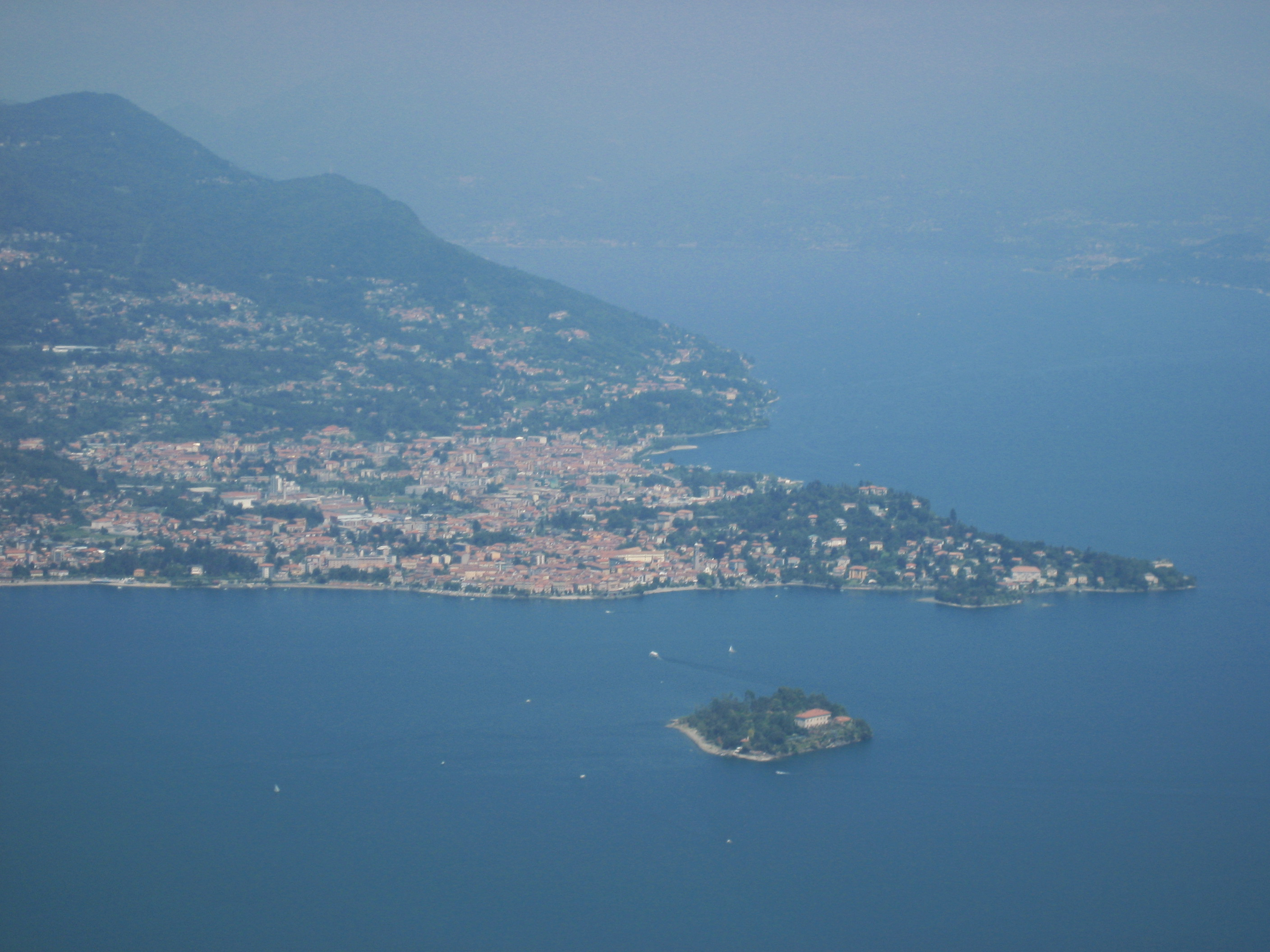 A view of the city of Verbania on the shores of Lake Maggiore, Italy. Photograph taken July en:2006 by Fawcett5, and released by him into the public domain.